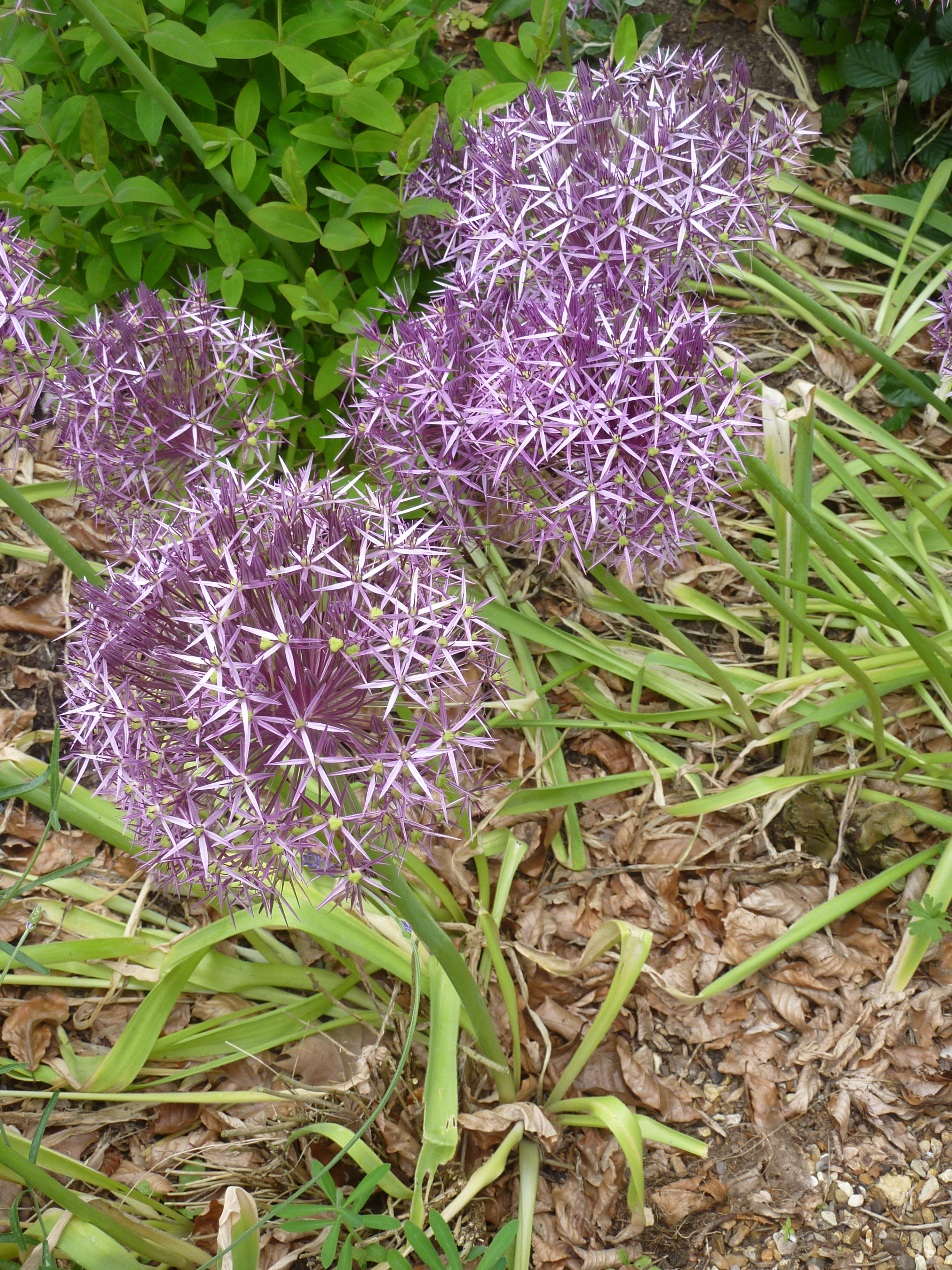 Taken in the Cambridge University Botanic Garden